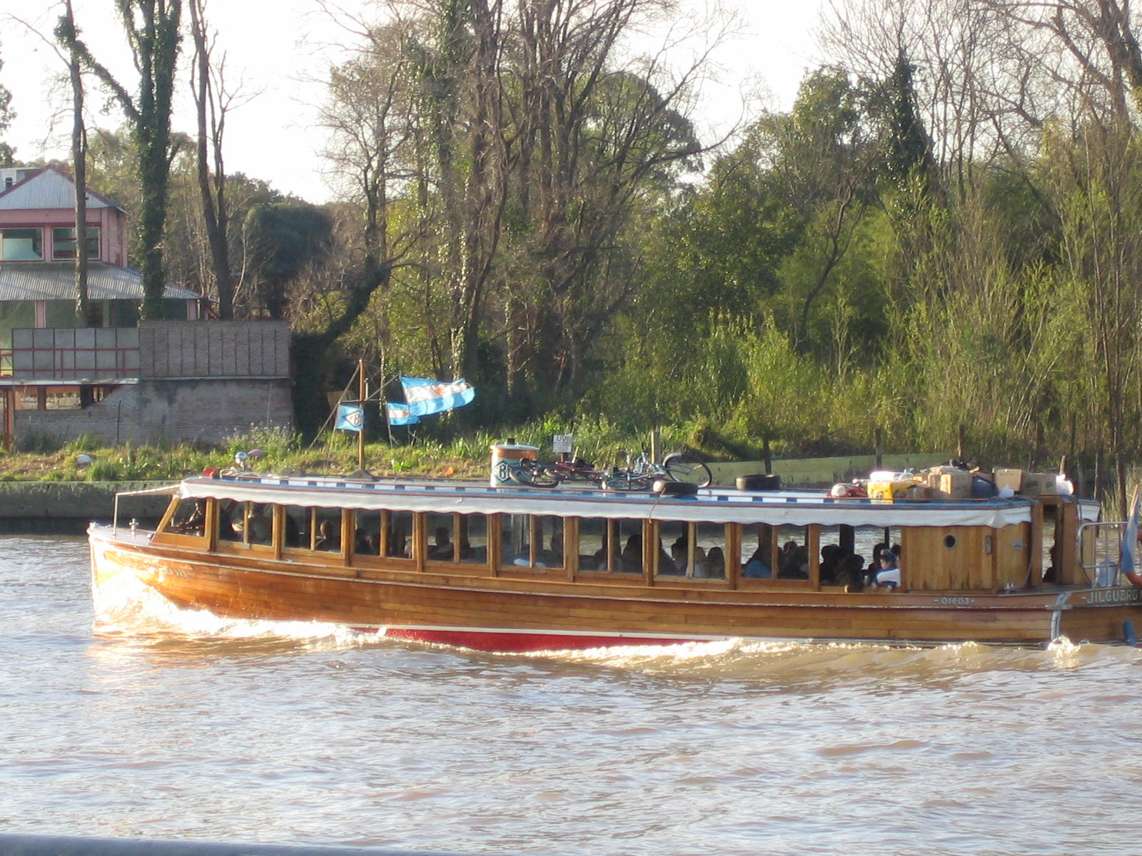 El Jilguero company commuter boat - Buenos Aires - Argentina